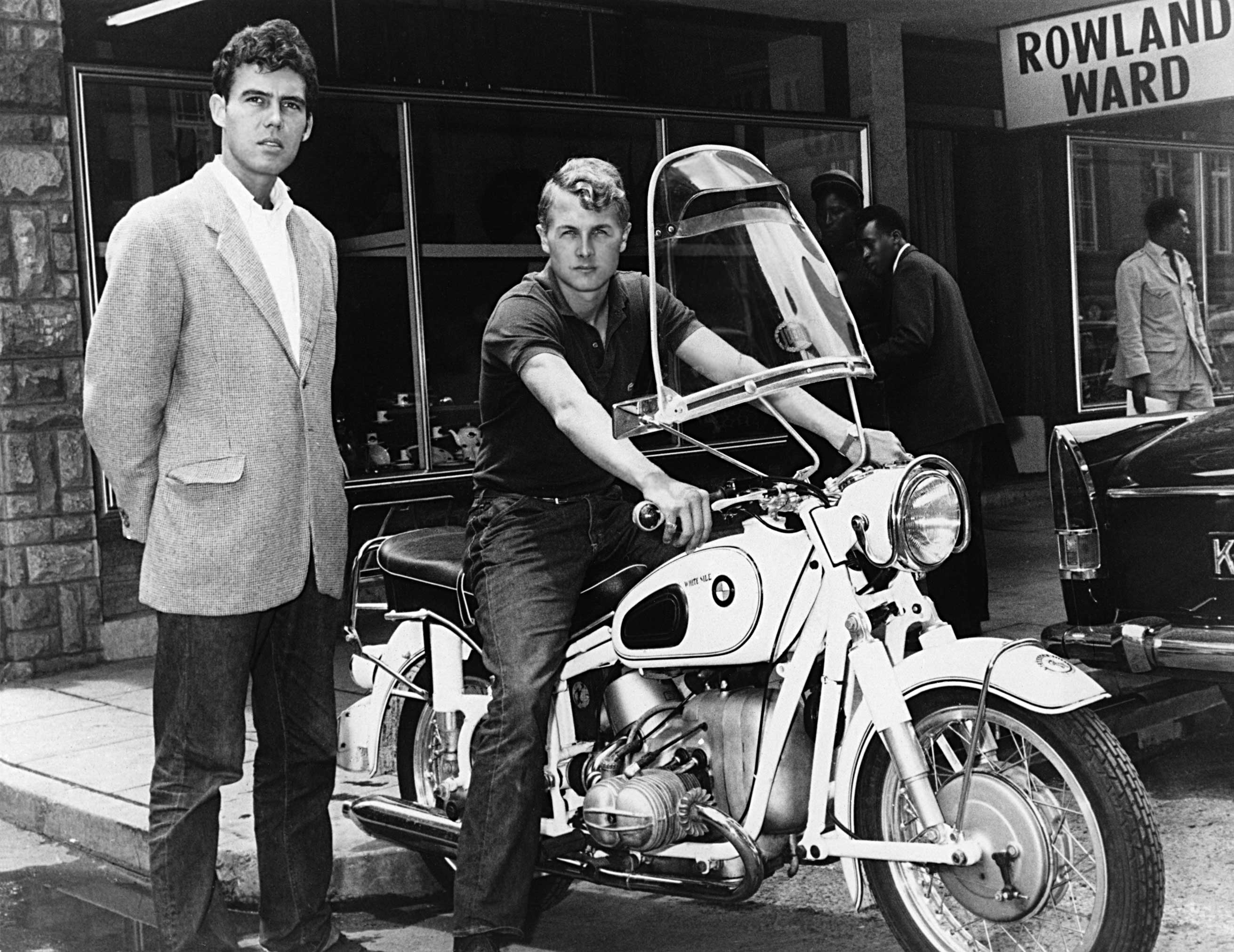 John Hopkins (right) and Joe McPhillips (left) on ‘The White Nile Diaries’, with a white R50 BMW.